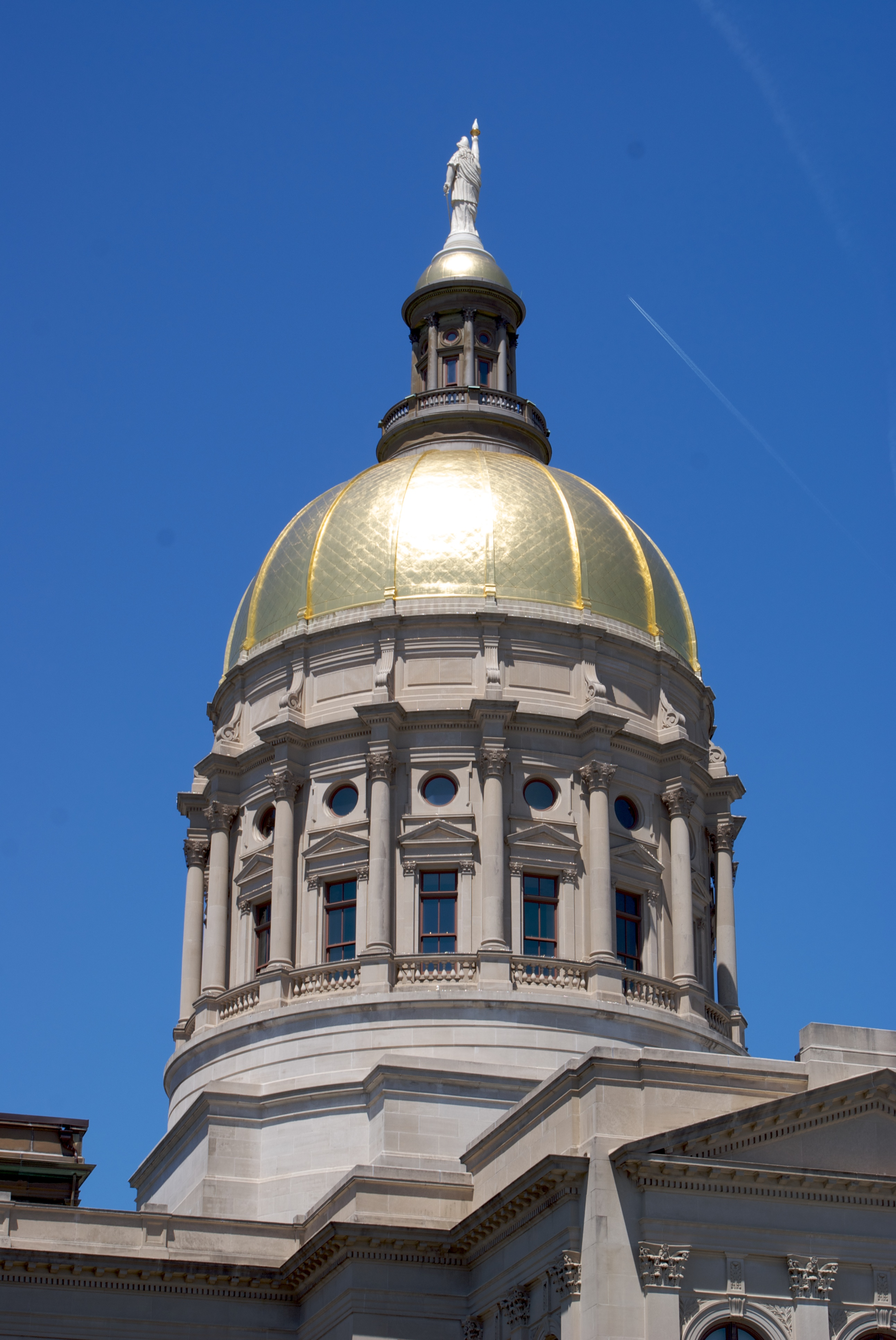 Close-up of the gold dome atop the Georgia State Capitol.